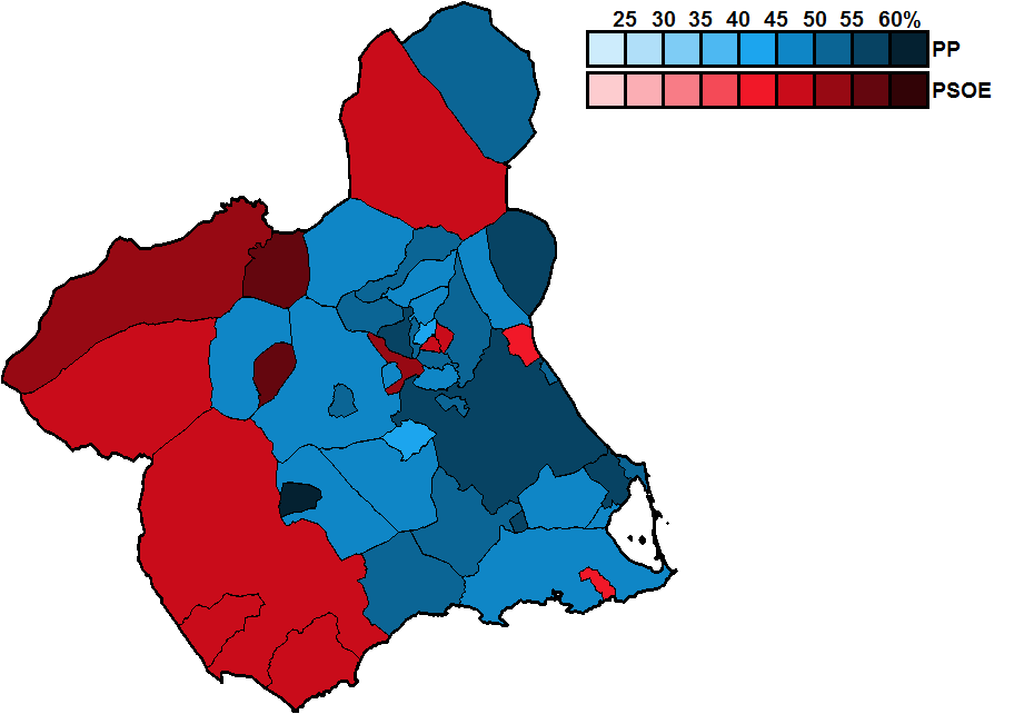 Most-voted party in Murcia municipalities, showing vote share obtained, in the Spanish general election, 1996.